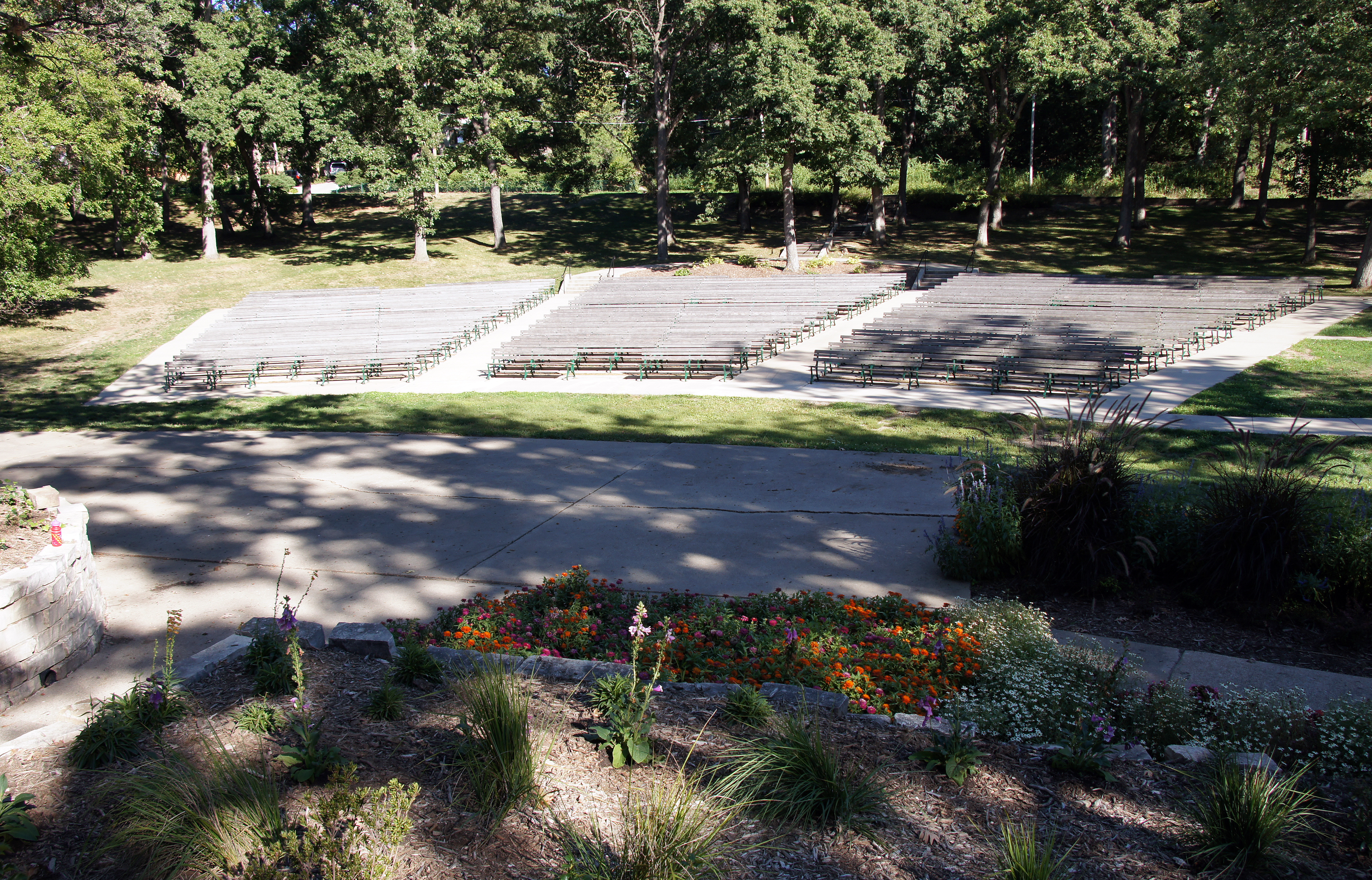 Sylvan Theater Historic District